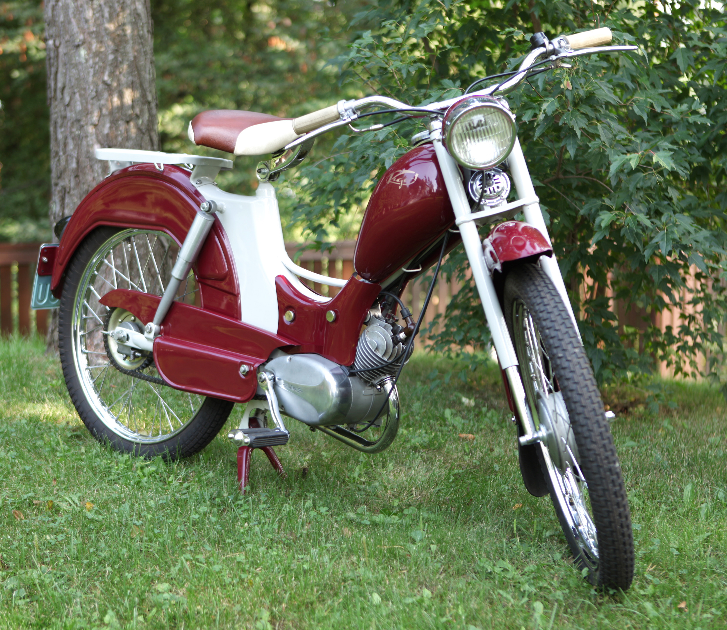 USSR moped « Riga-1», Riga motorcycle factory 1962